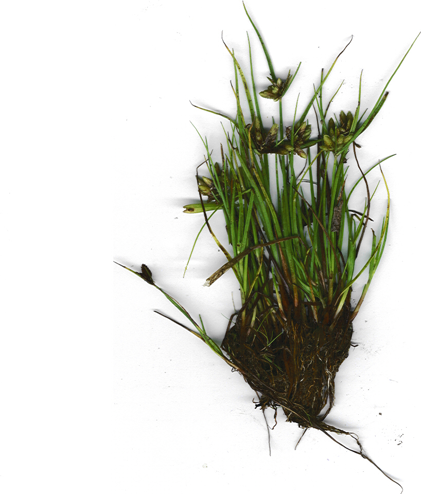 Cyperus gracilis (plant). Location: Hawaii, Hilo